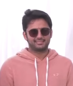 Actor Nithiin at Andhadhun remake launch